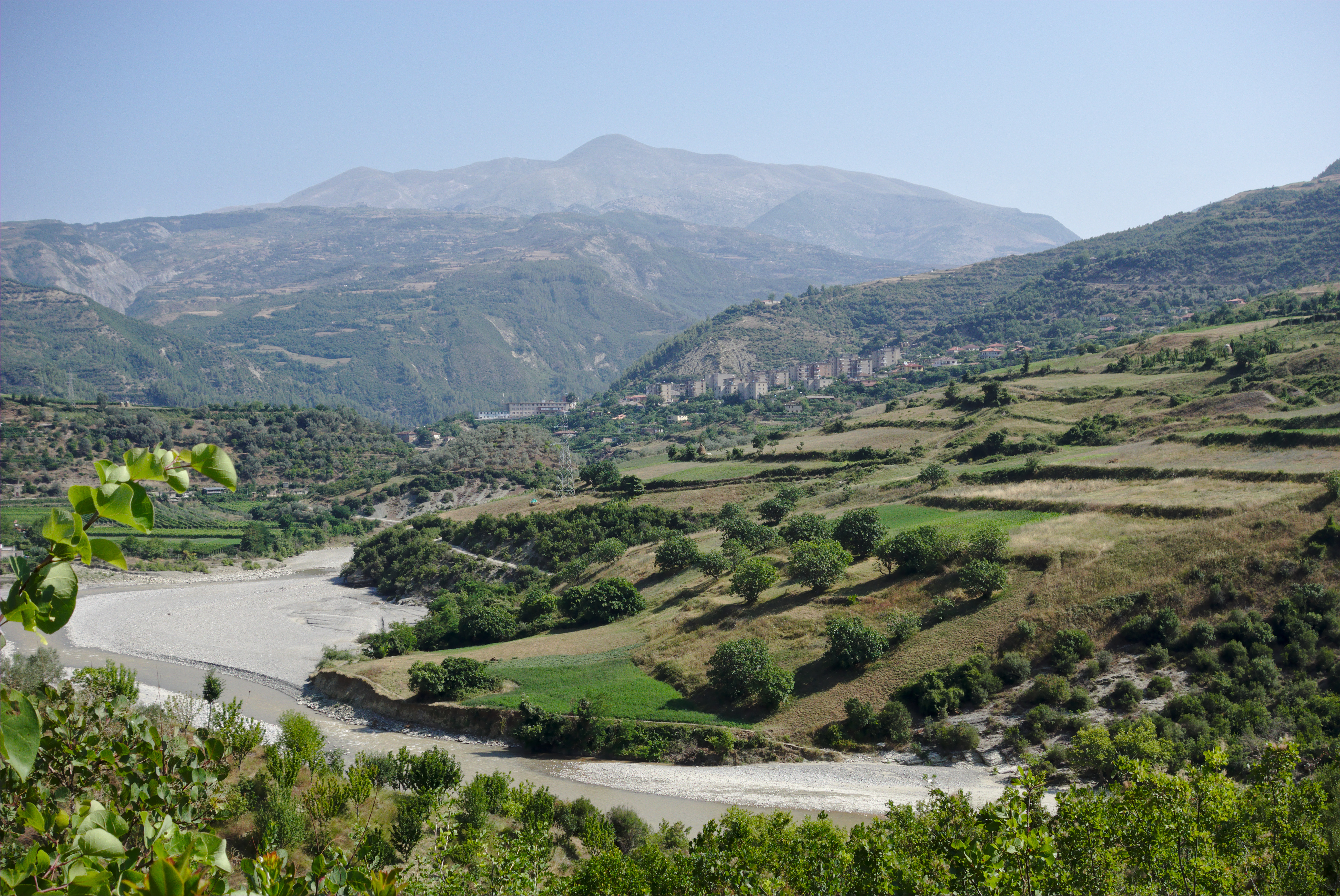 River Osum with bridge and the city of Çorovodë between agricultural landuses and hills. Behind the mountains Tomorr and Kulmakë. Seen from the south. (source name: dscRX008623_Osum_Flussbett,_Çorovodë_und_Tomorr_zoom.jpg)